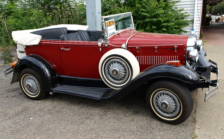 Replica of the 1931 Ford Model A Phaeton, built by Replicars Inc. of West Palm Beach? This creation seems to be based on a VW Beetle floorpan, seeing the VW taillights, front turn signals, and door handles.